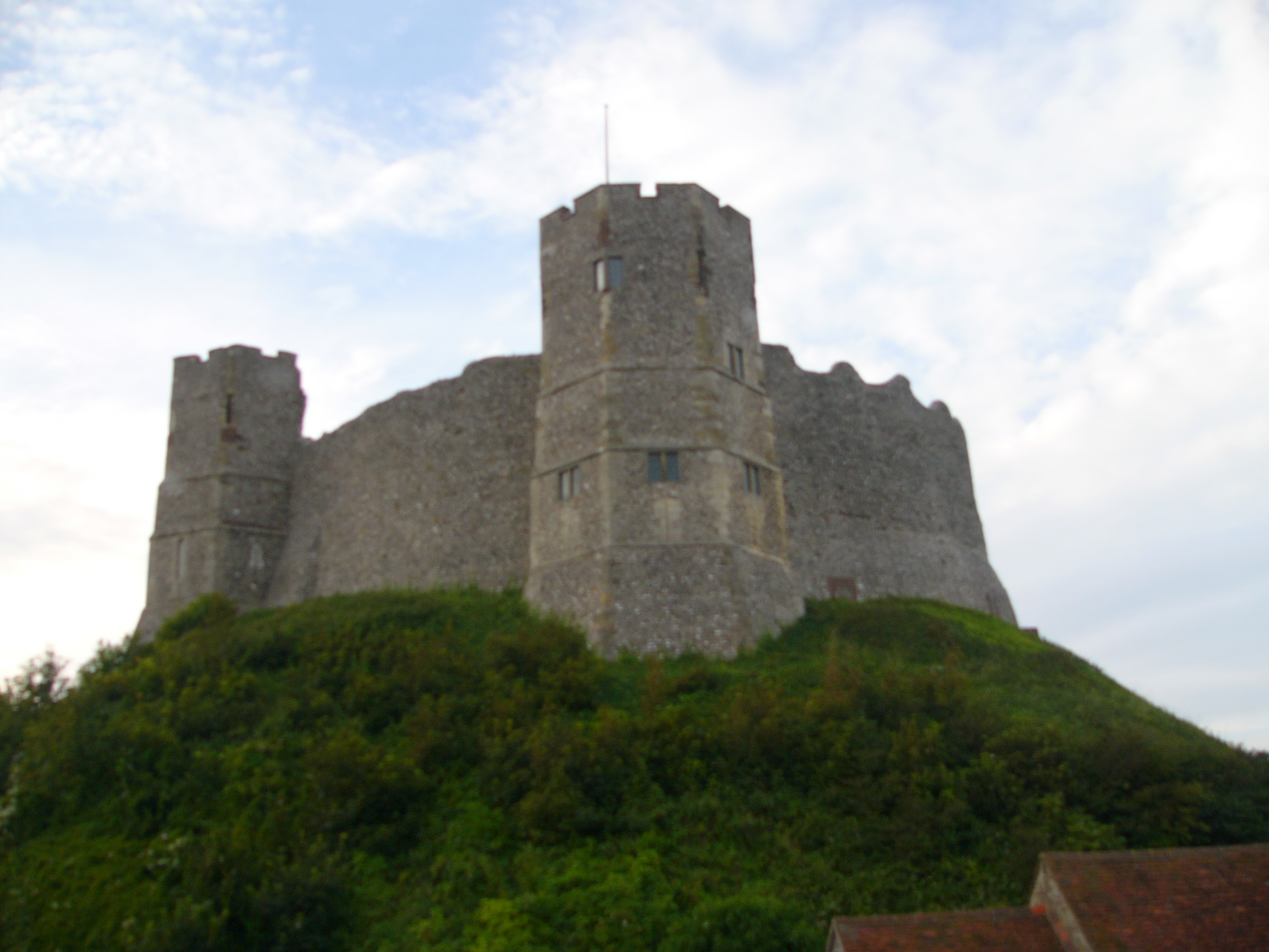 Photo of Lewes Castle, taken by Andy Holyer, July 2004